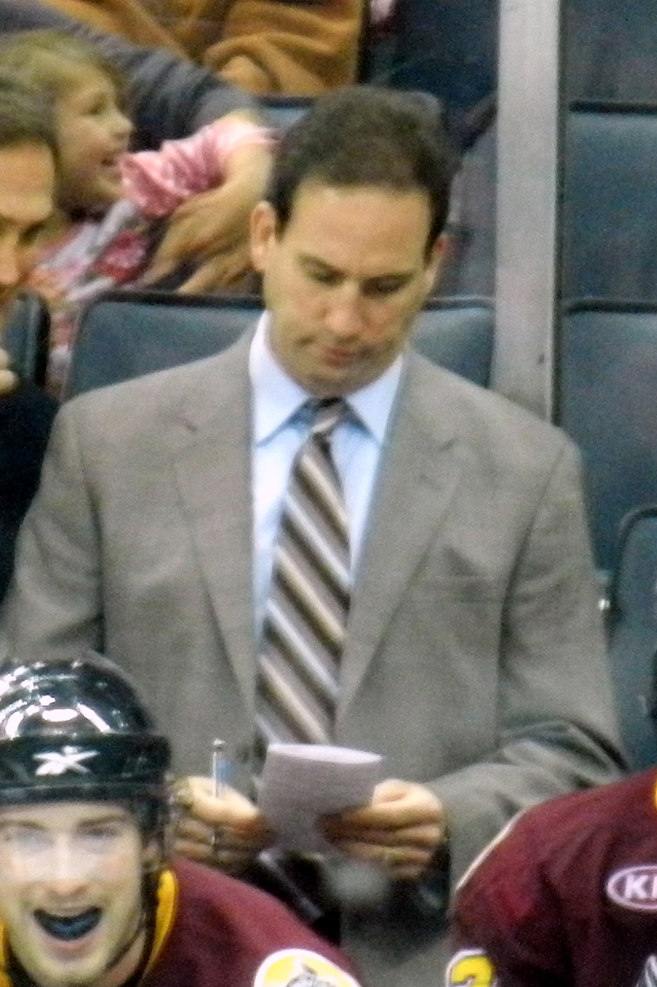 Scott Arniel coaching the Chicago Wolves during the 2012-13 AHL season